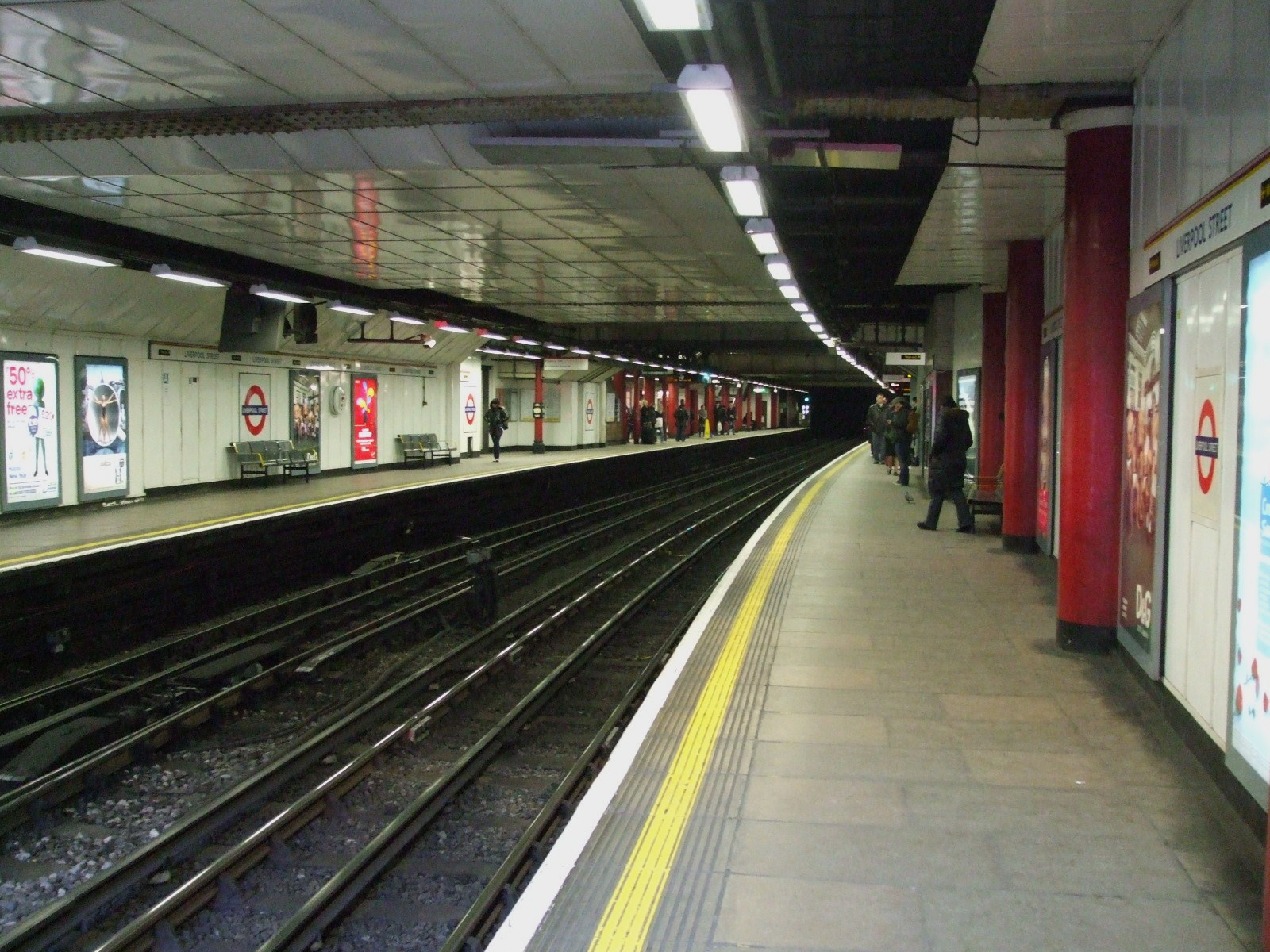 Liverpool Street tube station Circle/Hammersmith & City/Metropolitan line platforms looking clockwise/eastbound